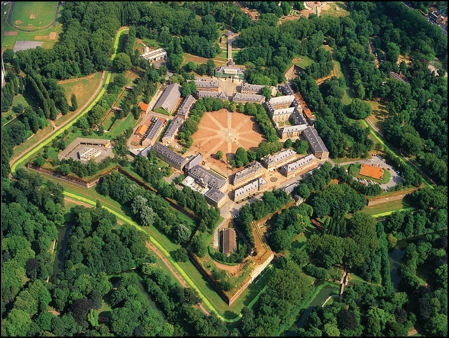 Citadelle Vauban de Lille hébergeant le QG CRR-Fr